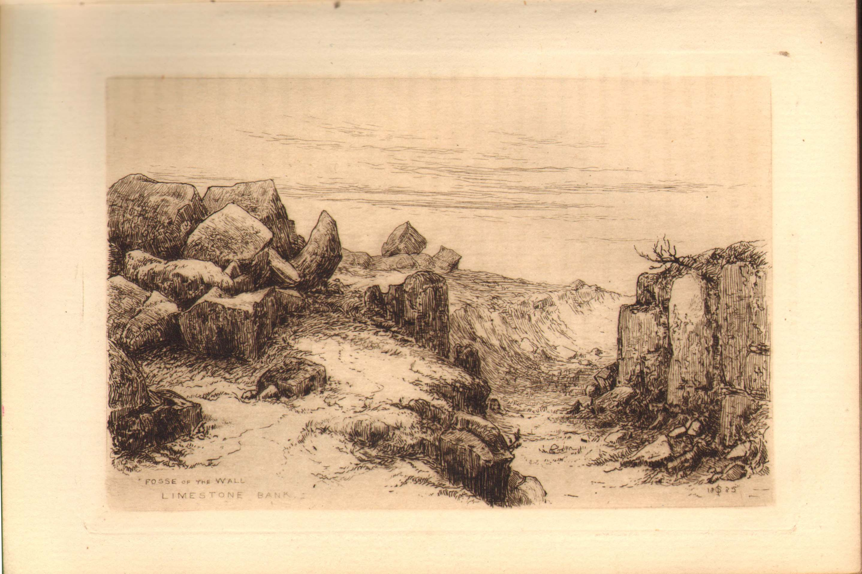 Fosse at Limestone Bank. Limestone Bank is not marked on the modern map of the roman wall, but from the map that comes with the handbook it is Teppermoor Hill or close by. The engraving is from Bruce, John Collingwood (1885) The hand-book to the roman wall (3rd ed.), Longmans, Green & Co